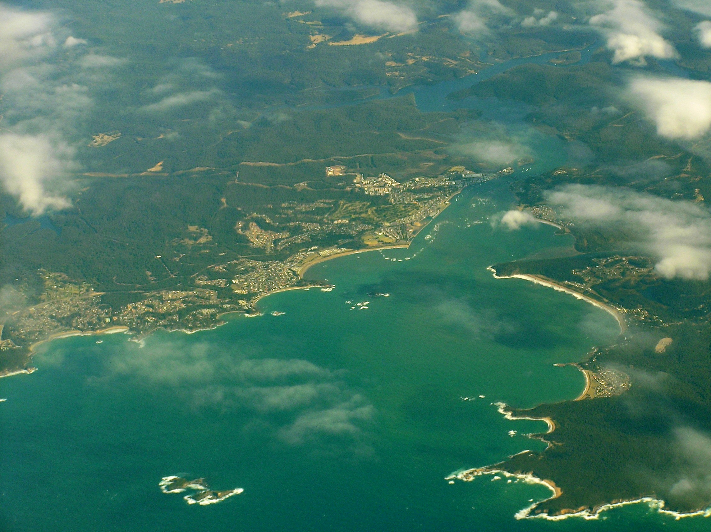 Aerial photo of Batemans Bay from the east